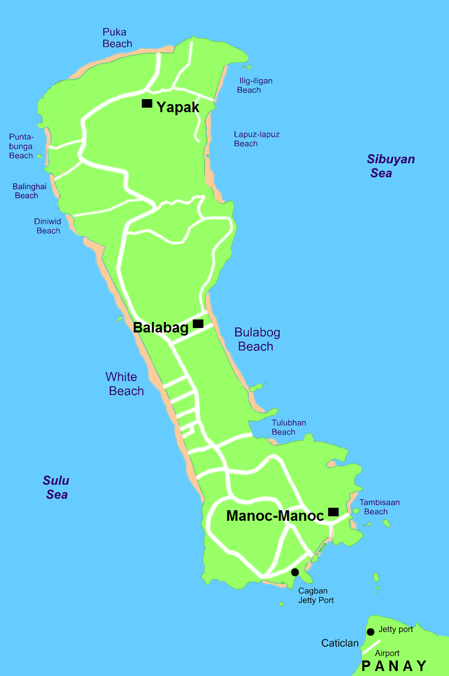 Sketch map of Boracay island/ Western Visayas